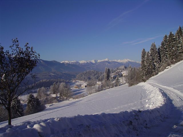 Sappl near Lake Millstatt (Millstätter See), district Spittal an der Drau in Carinthia / Austria / EU. View to the southwest. Left under the Small Farm Keuschpeter, behind Görtschach. In the background the Kreuzeck group.